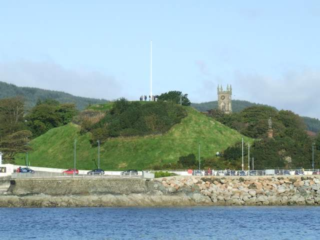 Castle Hill Dunoon Viewed from MV Saturn. The group of people are waiting the see the liner Queen Elizabeth 2 make her final journey to the Clyde, the river of her birth.